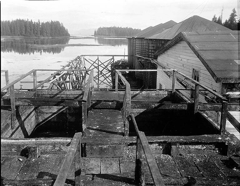 From John Cobb field notebook: Tyee whaling plant, oil trying-out vats, Jul 28, 1911 Subjects (LCSH): Tyee Company; Whaling--Alaska--Tyee; Storage tanks--Alaska--Tyee; Whale oil--Storage